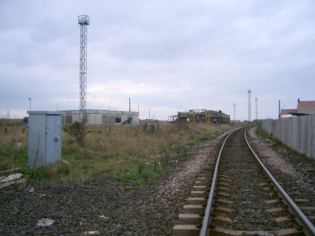 Rail Depot This photo is of the disused British Rail Depot at Cambois